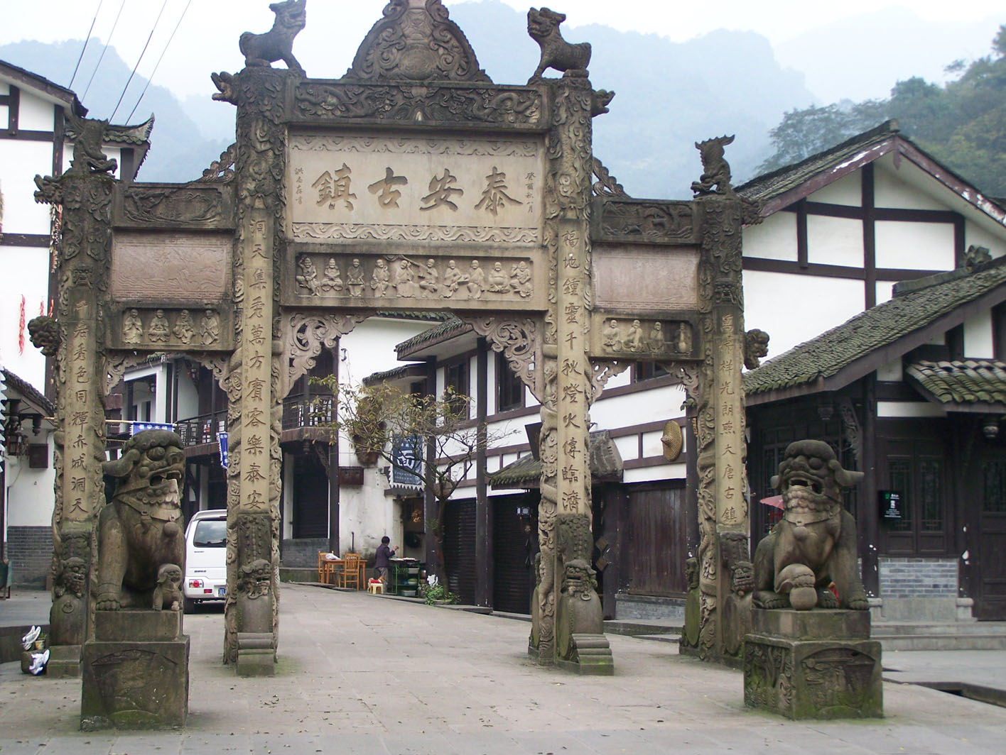 A historic town (Tai An) at Mount Qingcheng